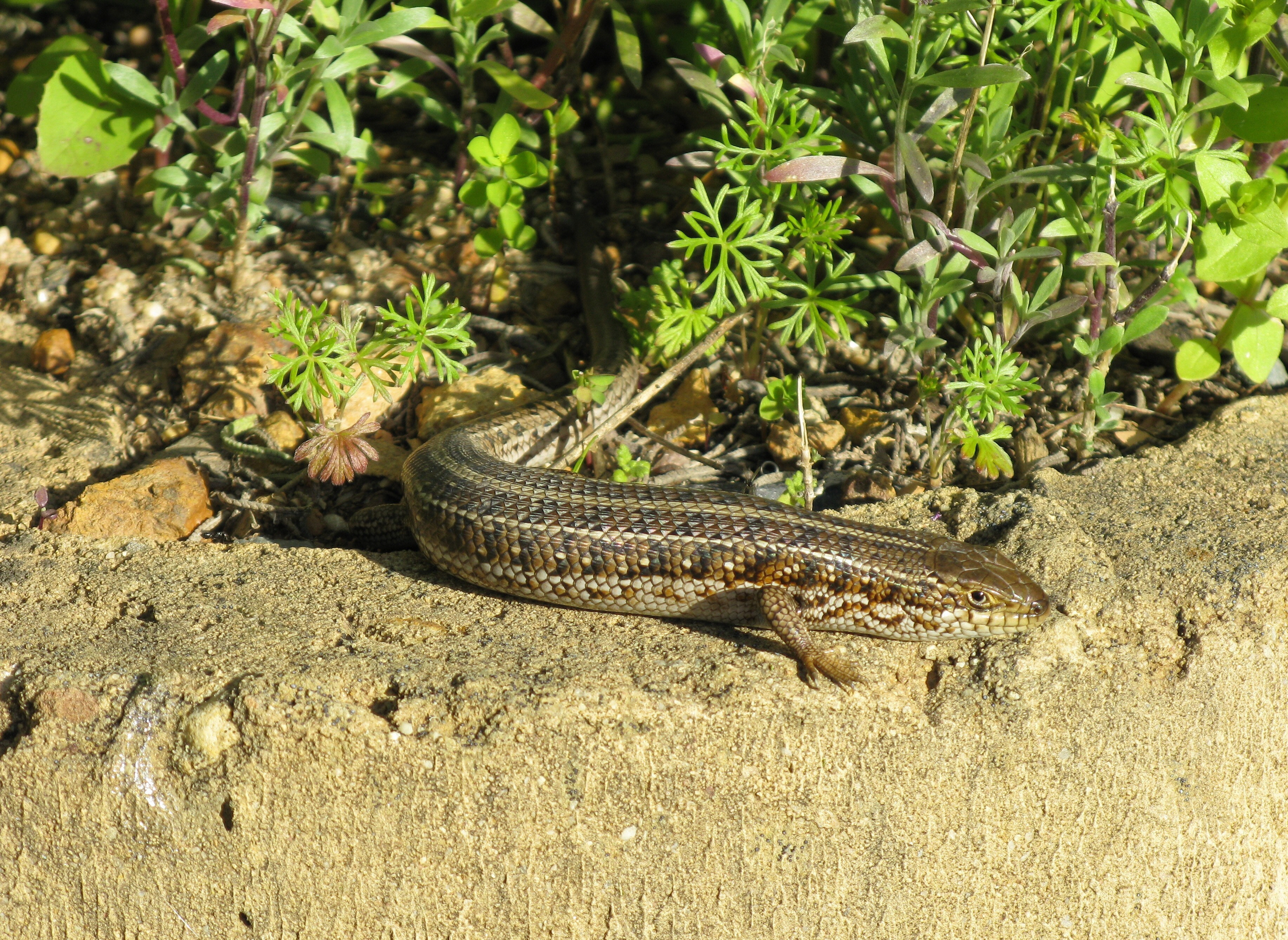 Common South African Skink Trachylepis capensis (used to be Mabuya capensis) in typical garden setting near Cape Town